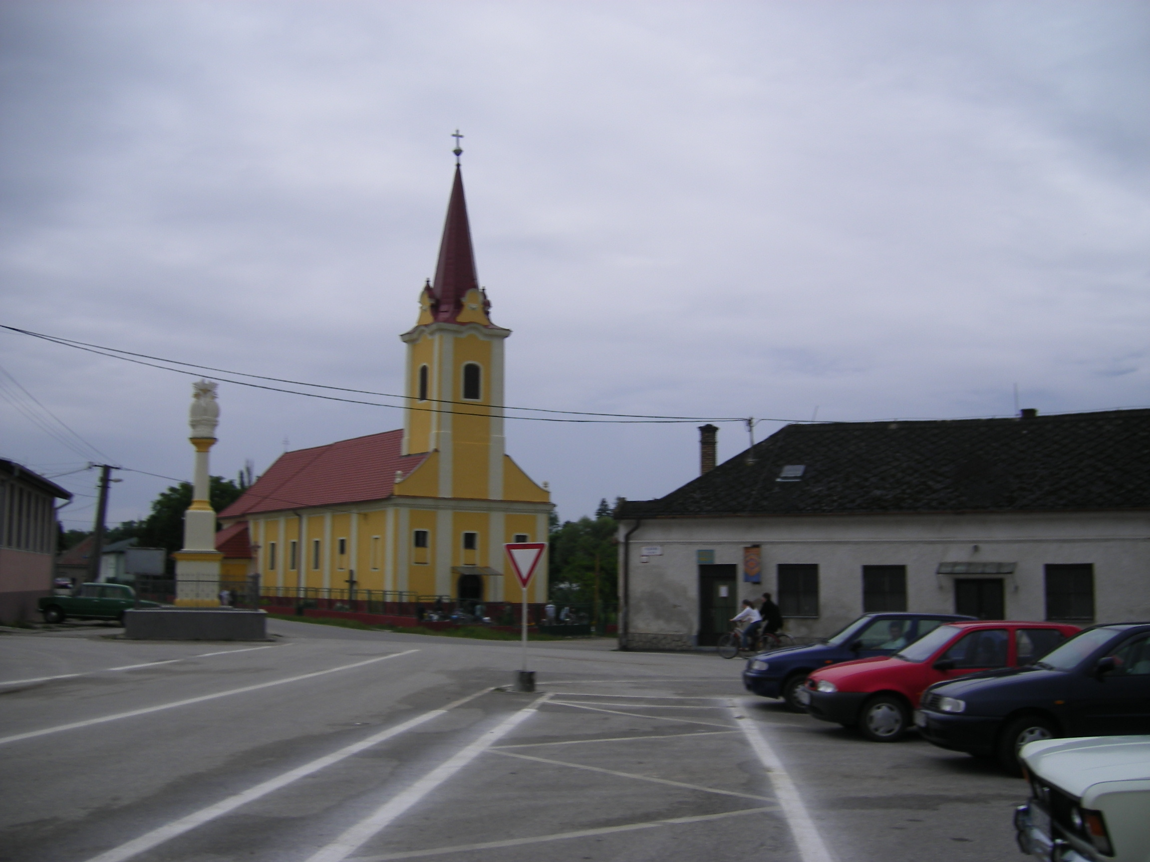 Svätý Peter (KN)catholic church